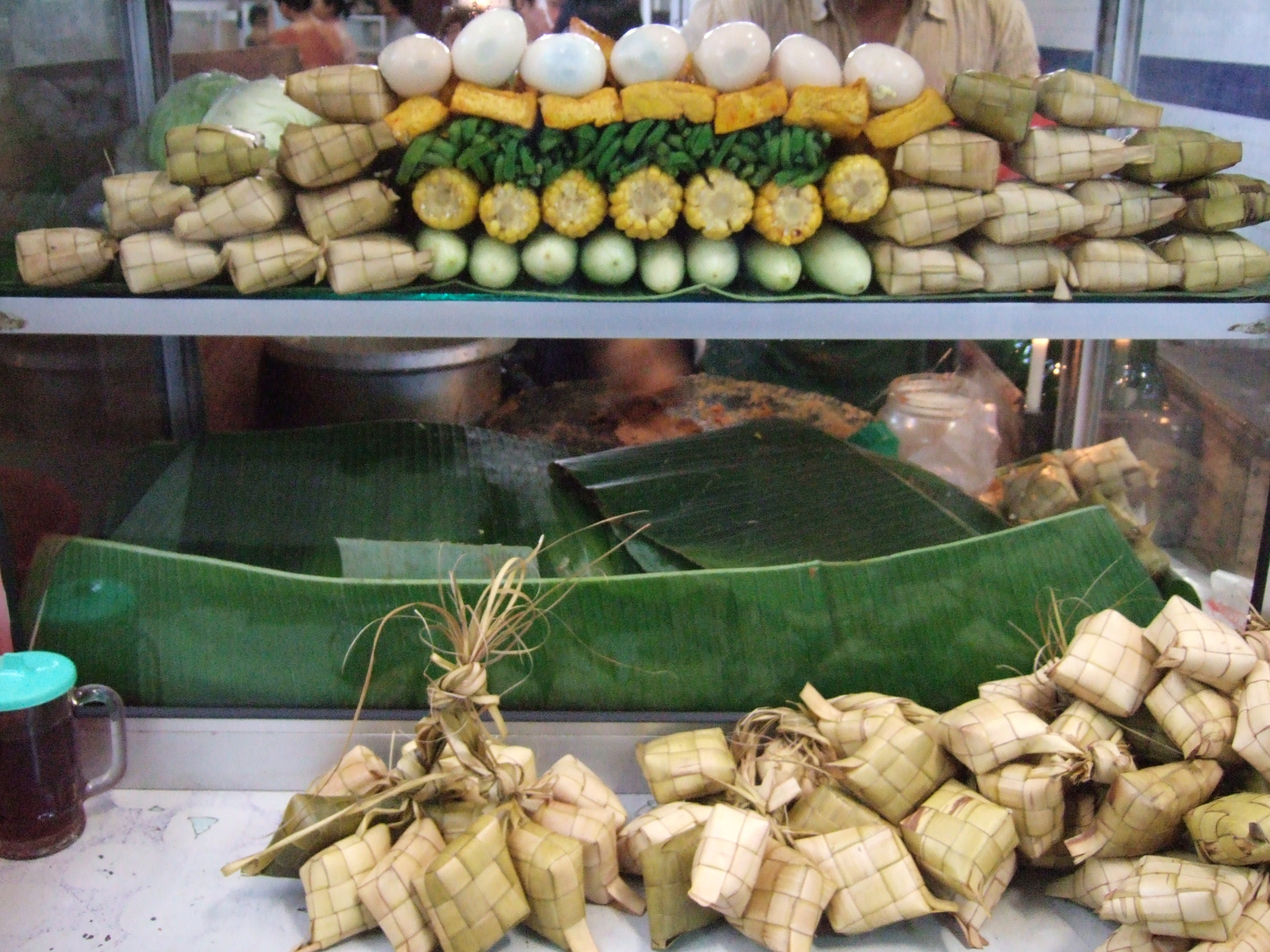 Gado-Gado stall at a traditional market in Jakarta